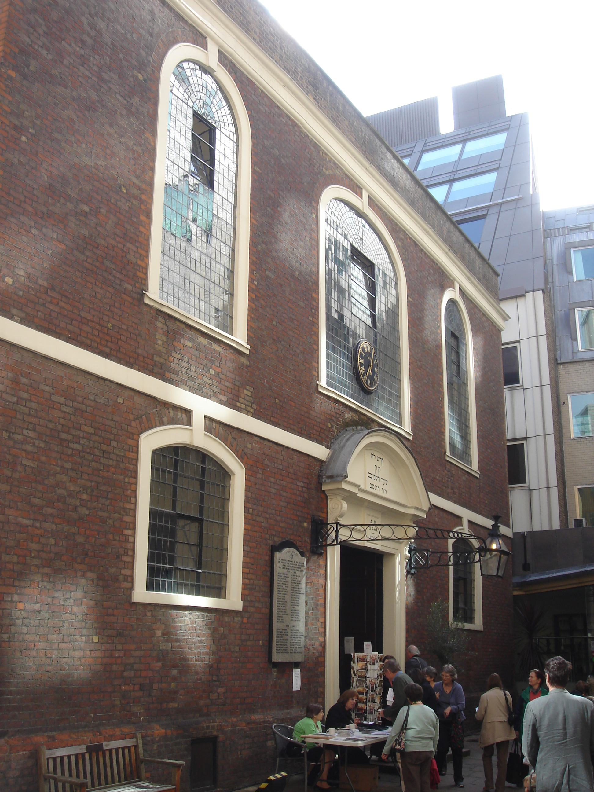 Bevis Marks Synagogue, London